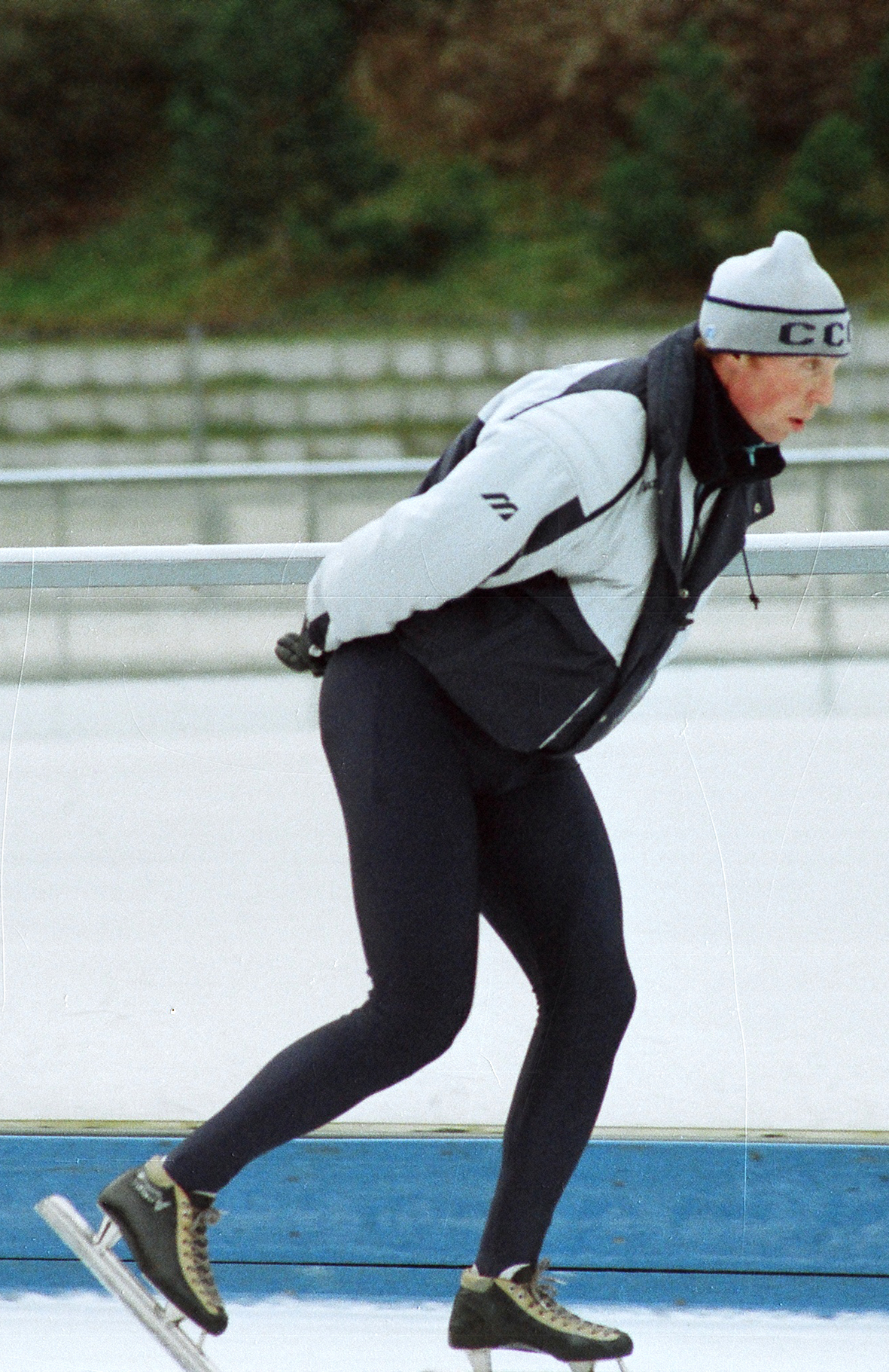 Foto uit 1986?